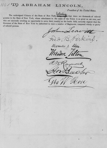 Petition to President Abraham Lincoln, August 1862, signed by Rev. Joshua Leavitt and other prominent abolitionist leaders asking that Lincoln request enlistment of black troops in the Union Army forces. The Abraham Lincoln Papers at the Library of Congress, Series I, General Correspondence, Washington, D.C. Retouched by MarmadukePercy